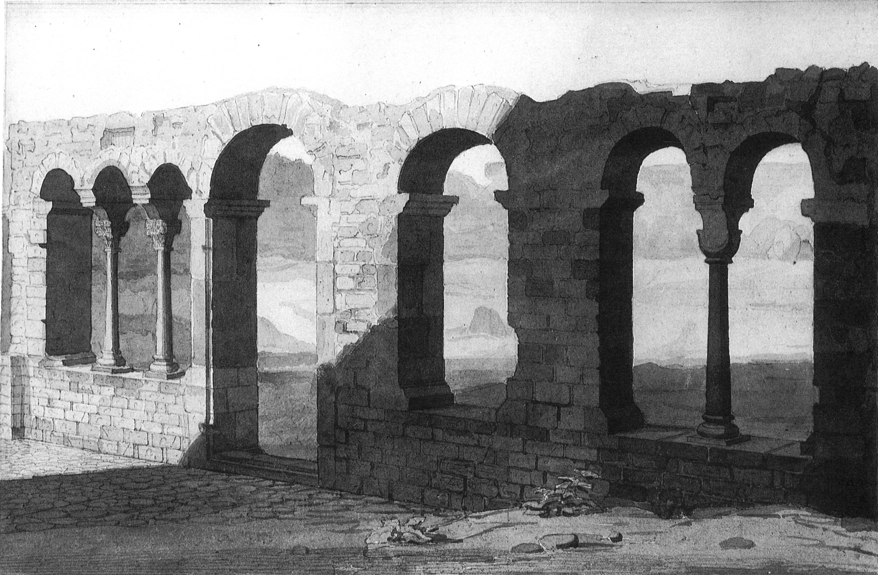 Remains of the abrupted cloister of Groß St. Martin, Cologne